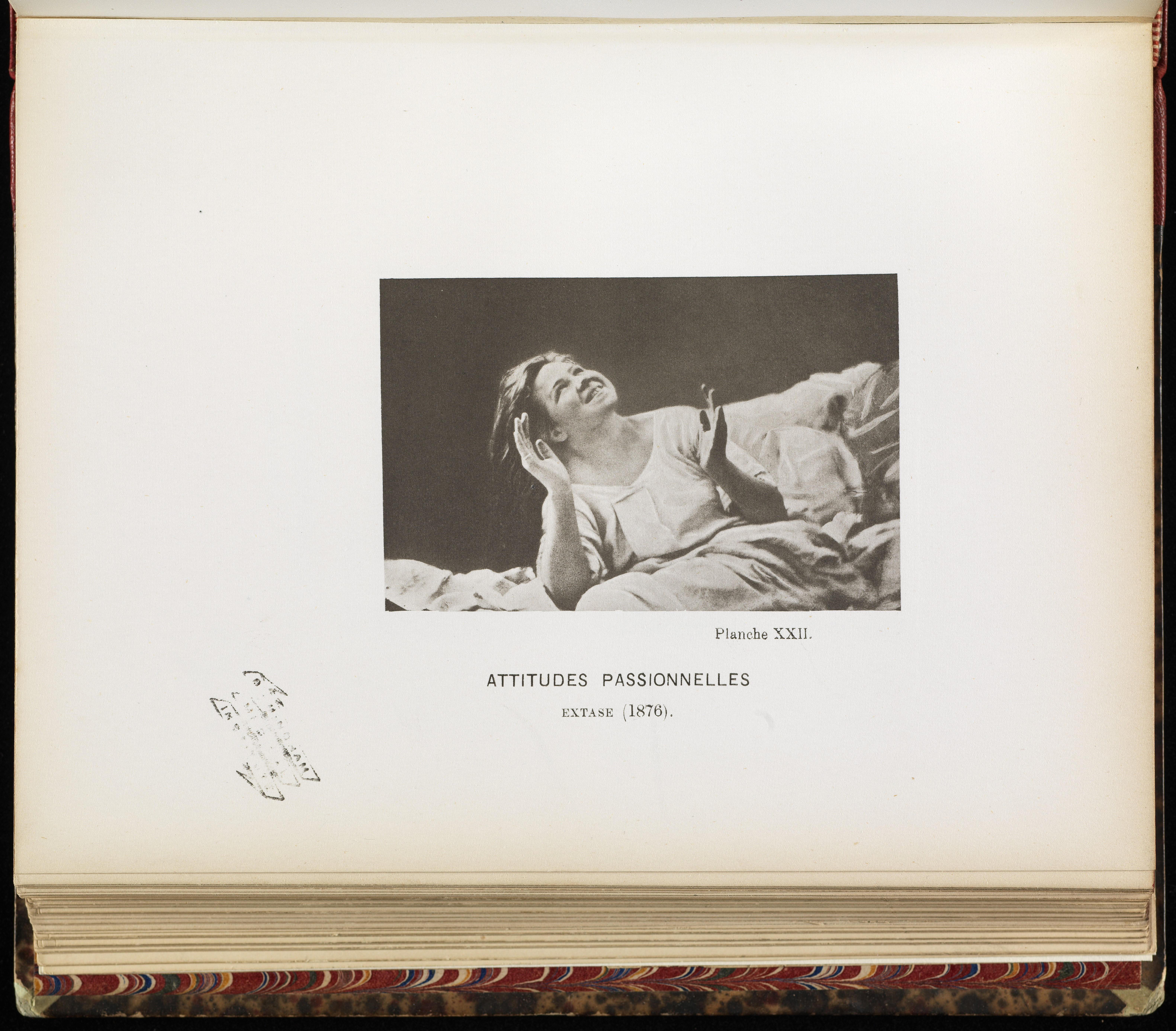 Planche XXII. Attitudes Passionnelle. Extase (1876). The text is by Bourneville and the photographs are by P. Regnard. The plates in v. 1 are mounted photographs (albumen prints) with letterpress captions; the plates in v. 2-3 are collotypes with letterpress captions. All of the plates, which depict patients at La Salpetriere, are from photographs by Regnard. General Collections Keywords: Woman; Patient; Photography; Epilepsy; Paul Regnard; Hypnosis; Hysteria